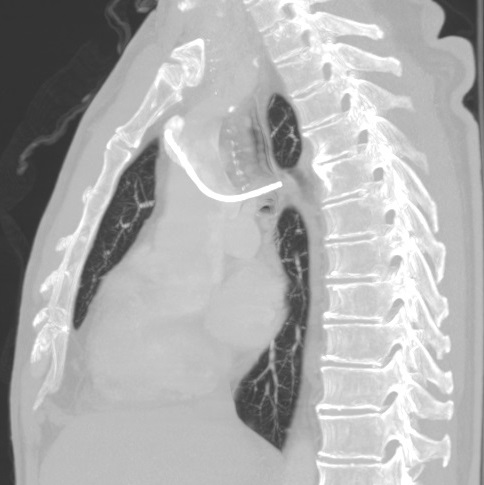 CT scan in the median plane (with a 3 cm thick maximum intensity projection) of a 66 year old man who received a port for chemotherapy for a pancreatic cancer. It shows that the tip of the port is placed in the azygos vein. As of upload date, it has remained functional for therapy for 9 months, although there have been occasional problems aspirating from it.